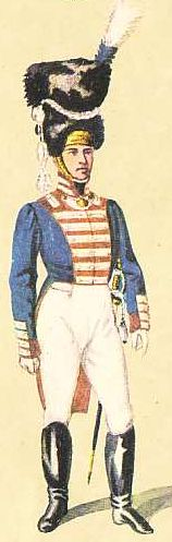 Grenadier-Garde-Regiment First lieutenent 1814 (Johann Baptist Cantler, uniforms of the Barvarian army from 1800-1873.